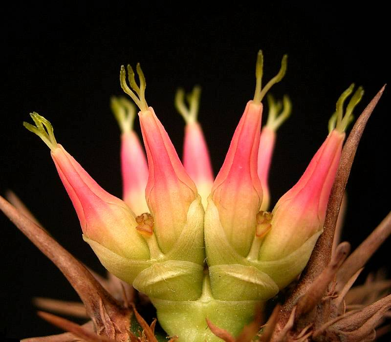 Euphorbia neohumbertii